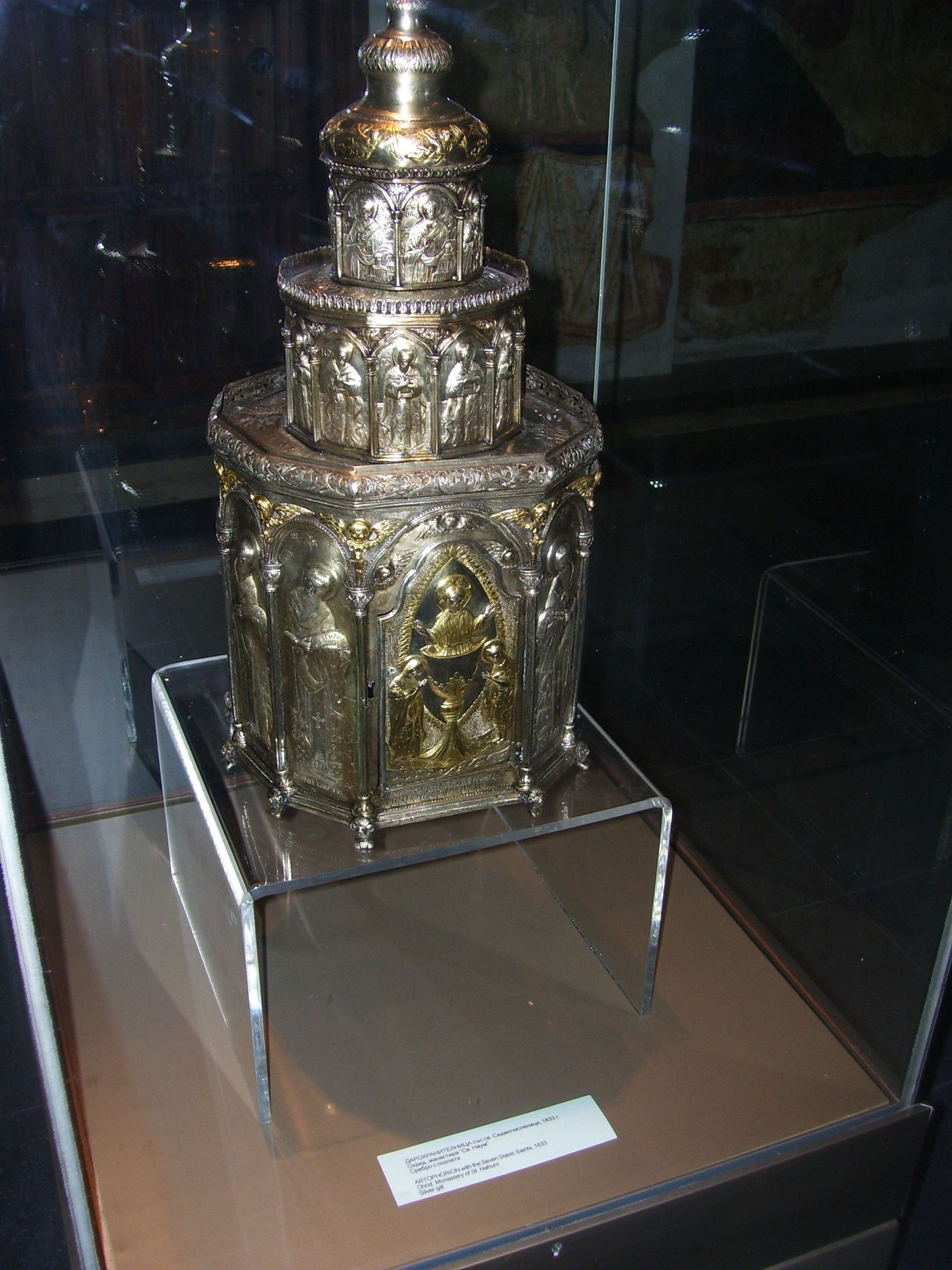 Silver and gilted artophorion from the St Naum Monastery, 1833, NHMB